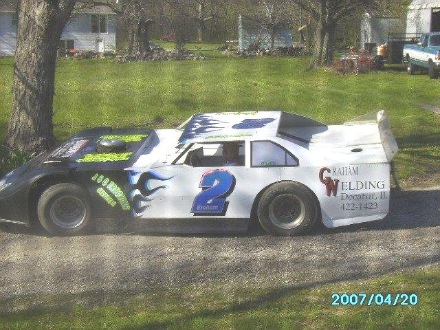 John Graham's UMP Late Model #2 in 2007